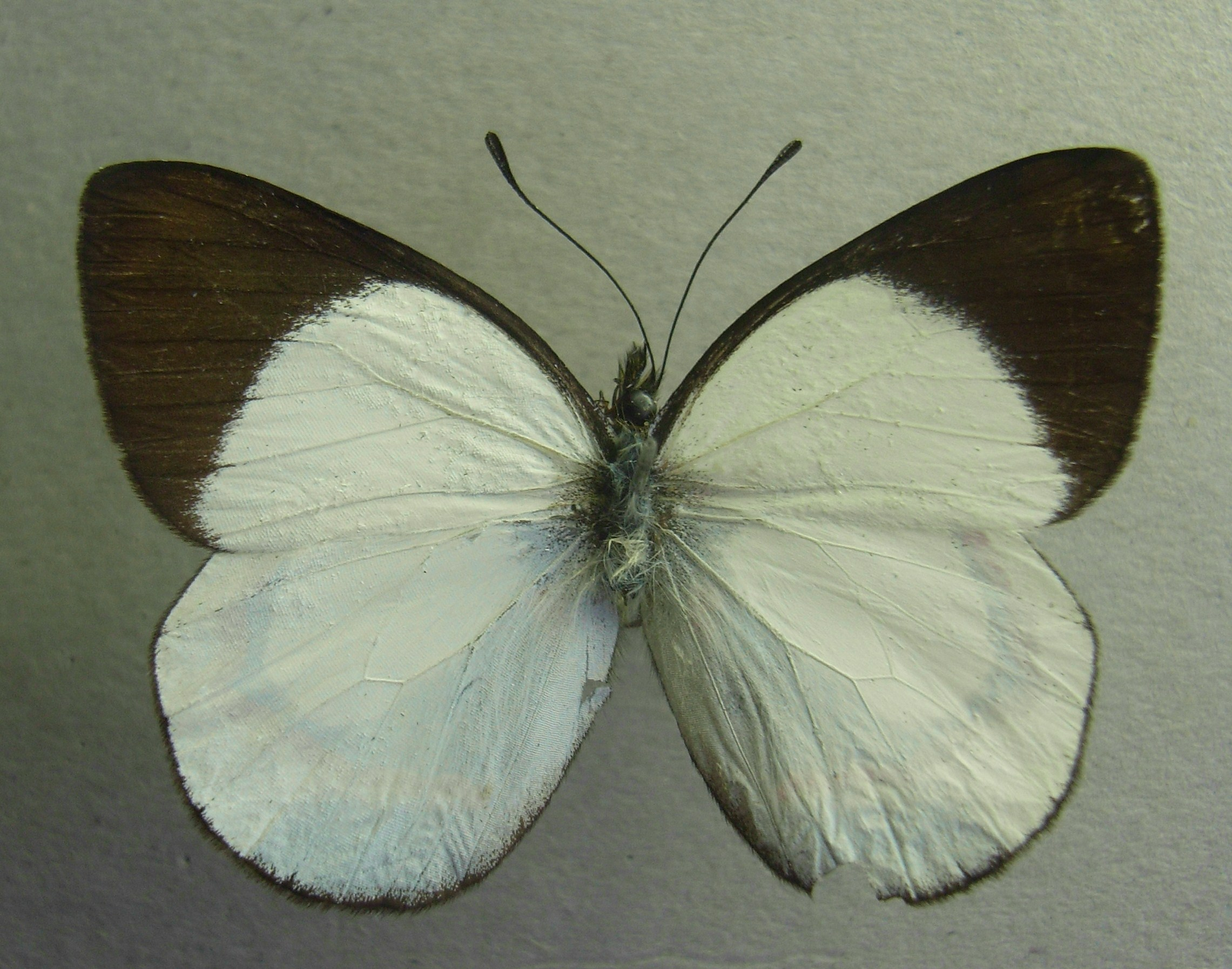 Delias isocharis Rothschild Jordan,1907